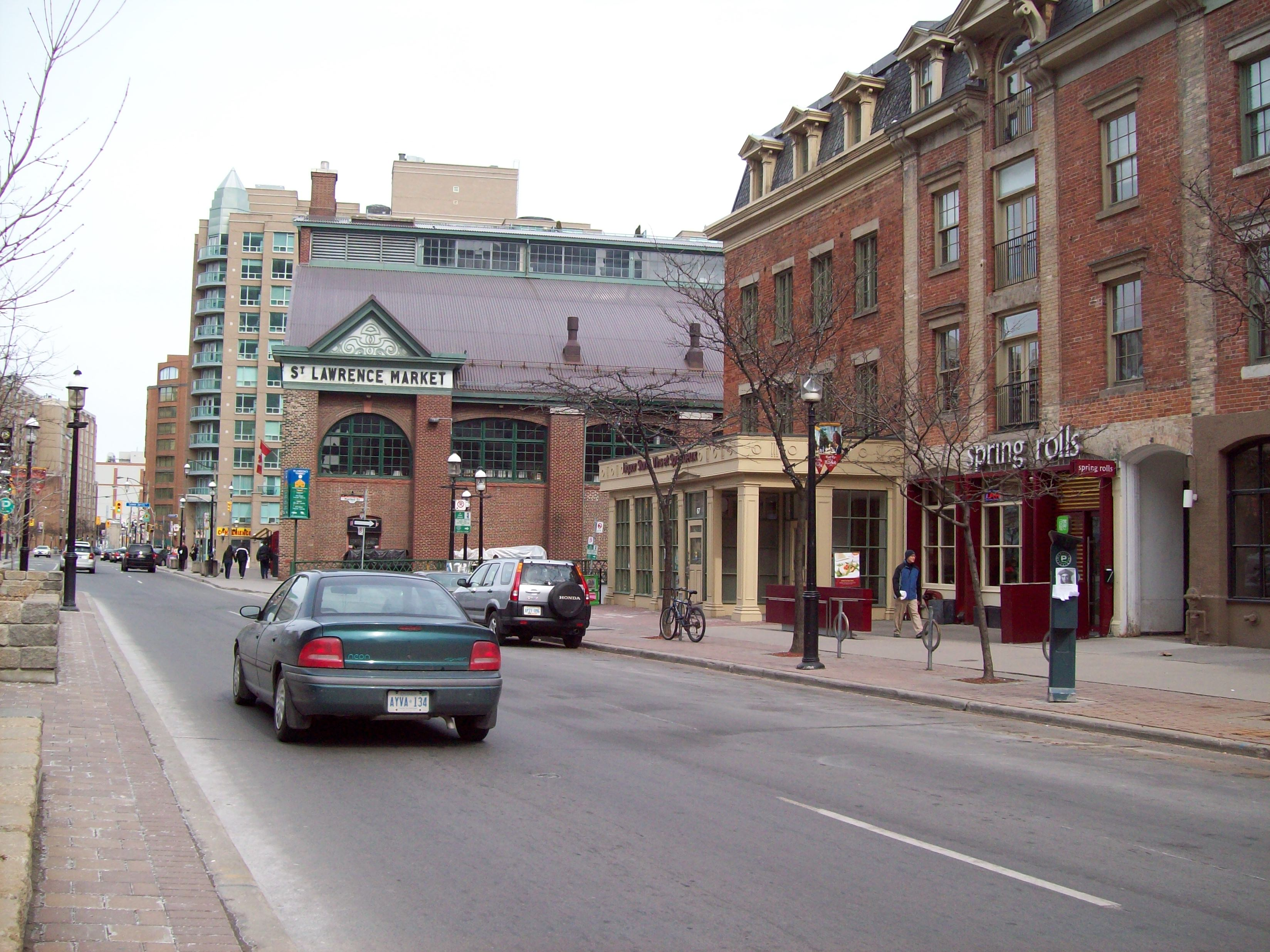 St Lawrence Market, from Front Street